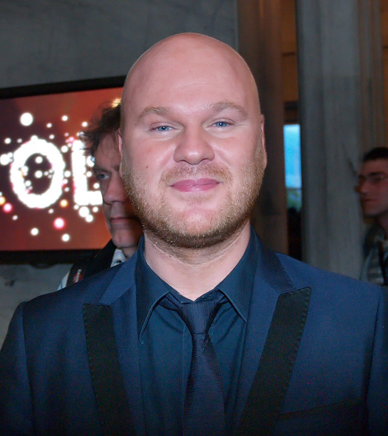 Swedish singer and song writer Fredrik Kempe at the welcome party for Eurovision Song Contest 2010 in Oslo, Norway.